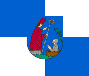 Flag of Telšiai and Telšiai district